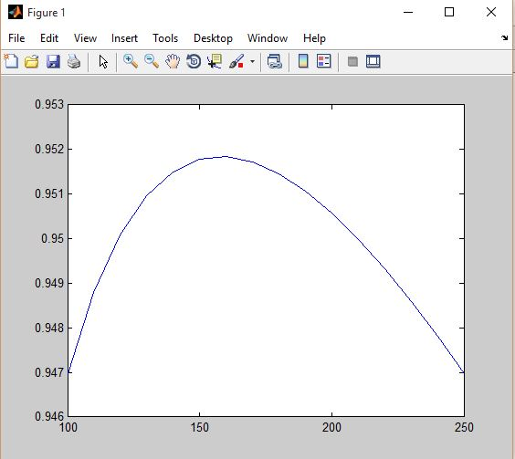 Efficiency curve with loading